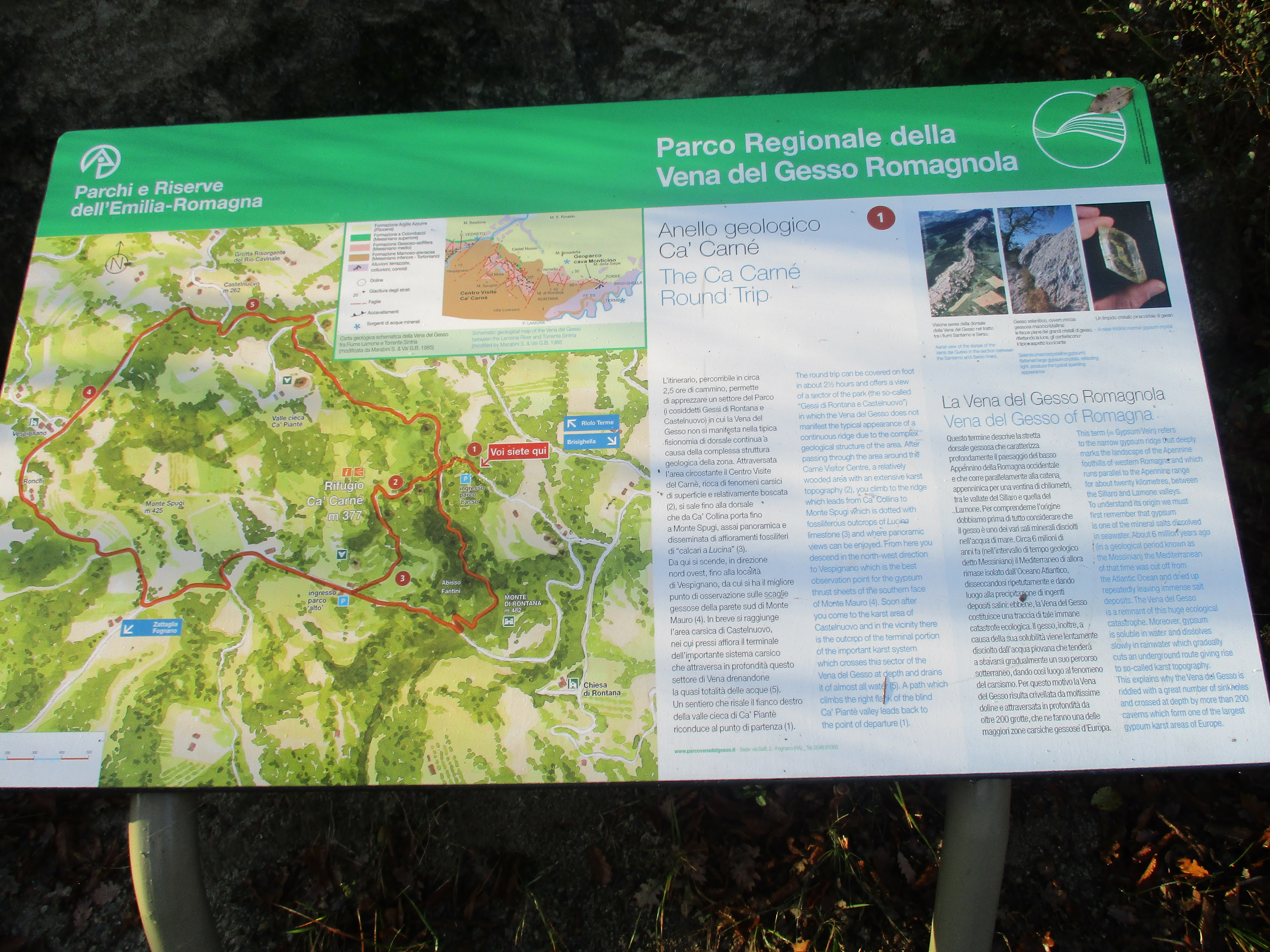 The Ca Carné round-trip